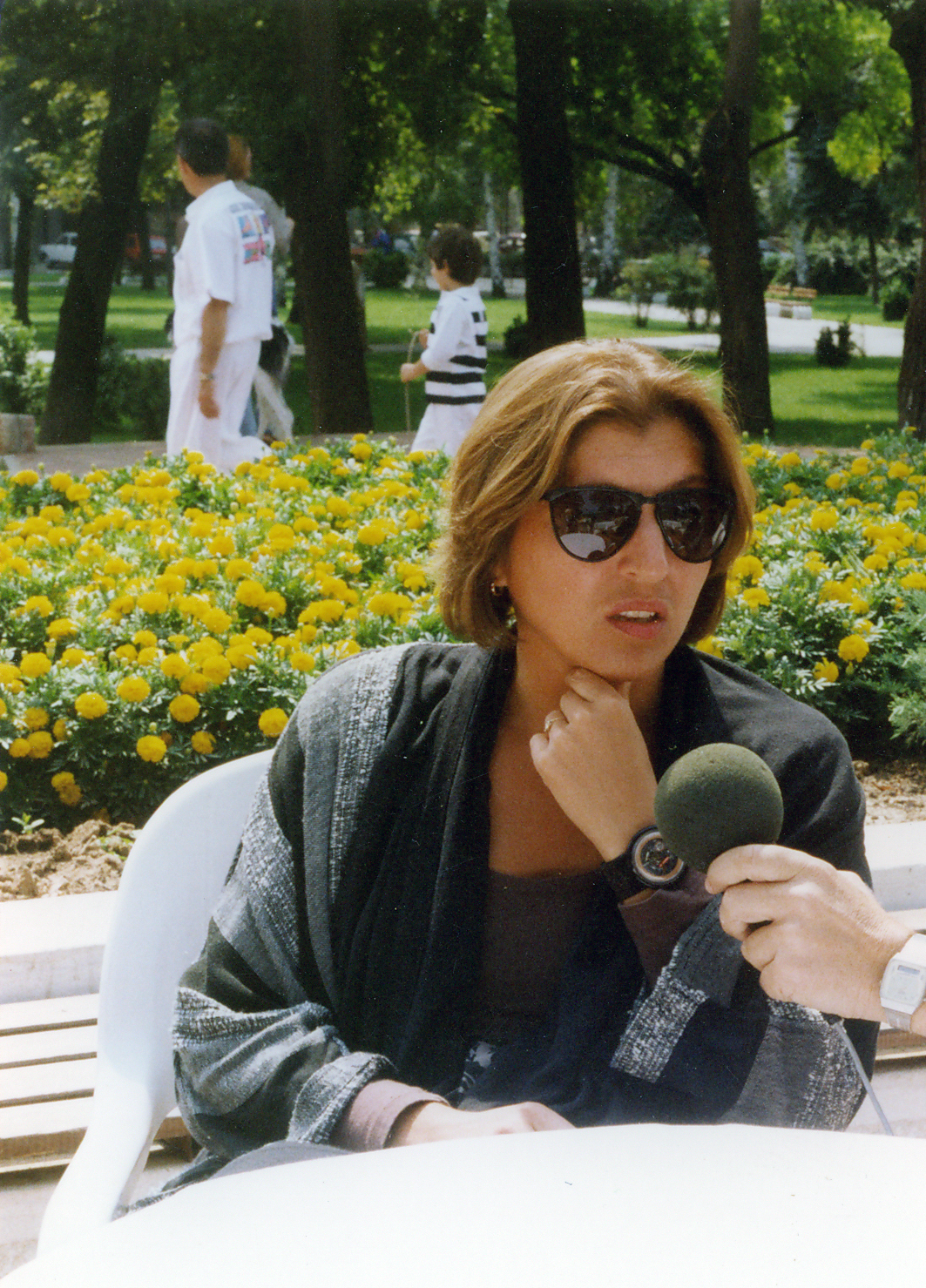 Mirjana Karanović, Serbian actress,r Film festival in Niš (Serbia), late 90s